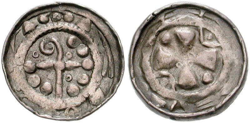 GERMANY, Saxony. Circa 1070-1100. AR Pfenning (15mm, 1.01 g). Bishop’s crozier surrounded by pellets / Cross with pellets and crescents in quarters. Gumowski 59; Dannenberg 1341. VF. Raised rims of the Randpfennig type. Possibly struck at Halle-Giebichenstein or Merseberg. The early pfennige of Saxony have seen a number of different attributions over the years. Some were known as “wendenpfennige” from the native Slavic peoples of the eastern Germany and Pomerania and others as “randpfennige” (rim pfennigs) from their up-raised edges and attributed to the early Polish bishoprics and kingdoms. More recent studies have concluded they were civic issues of various eastern cities, with places such as Bremen, Halle-Giebichenstein, Meissen, Merseberg, Naumburg being cited as points of origin.